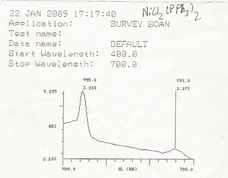 A UV-vis readout of bis(triphenylphosphine) nickel (II) chloride in chloroform